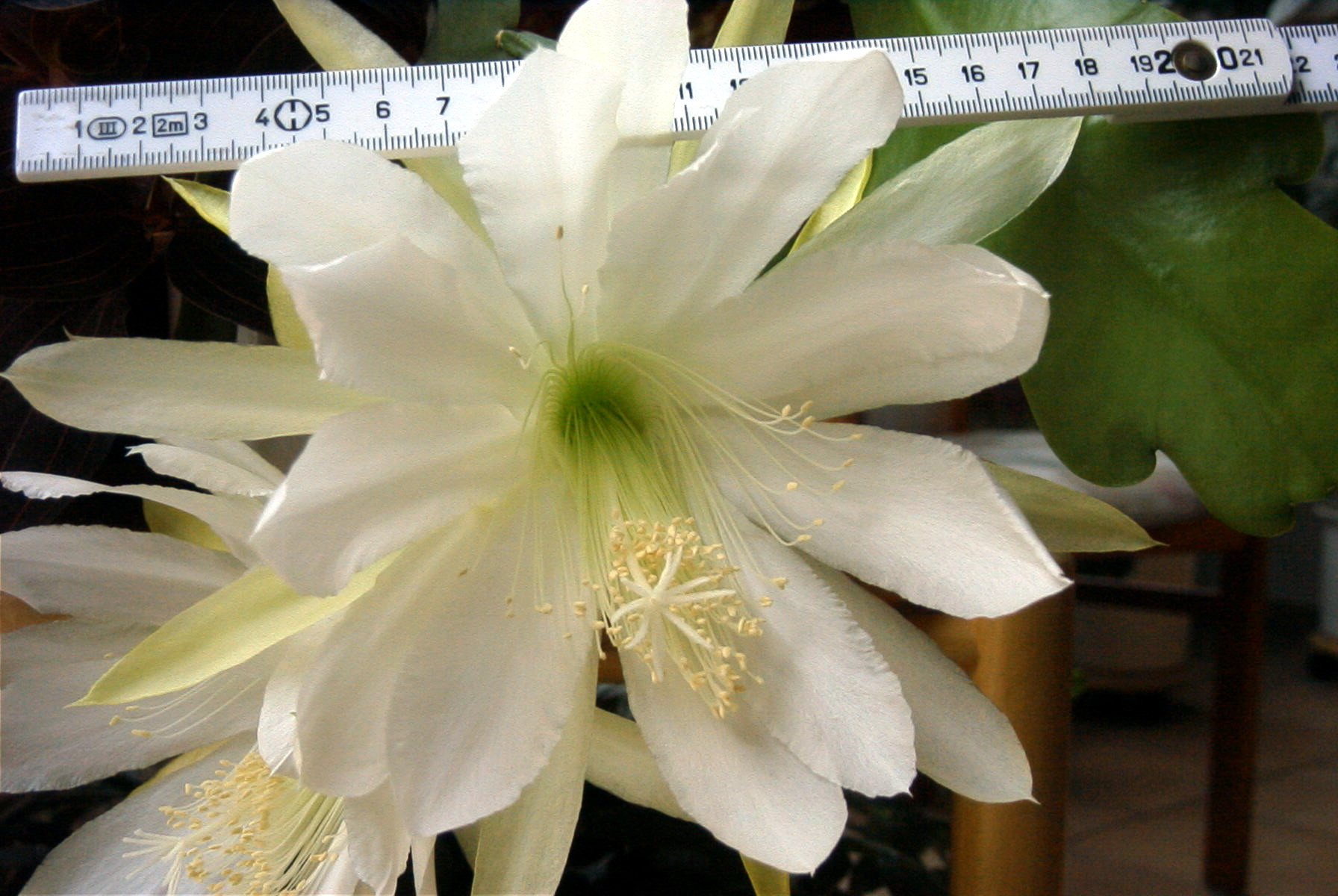 Unnamed Epiphyllum hybrid with a large flower (almost 20 cm in diameter). Photo: Andreas Neudecker (2005)